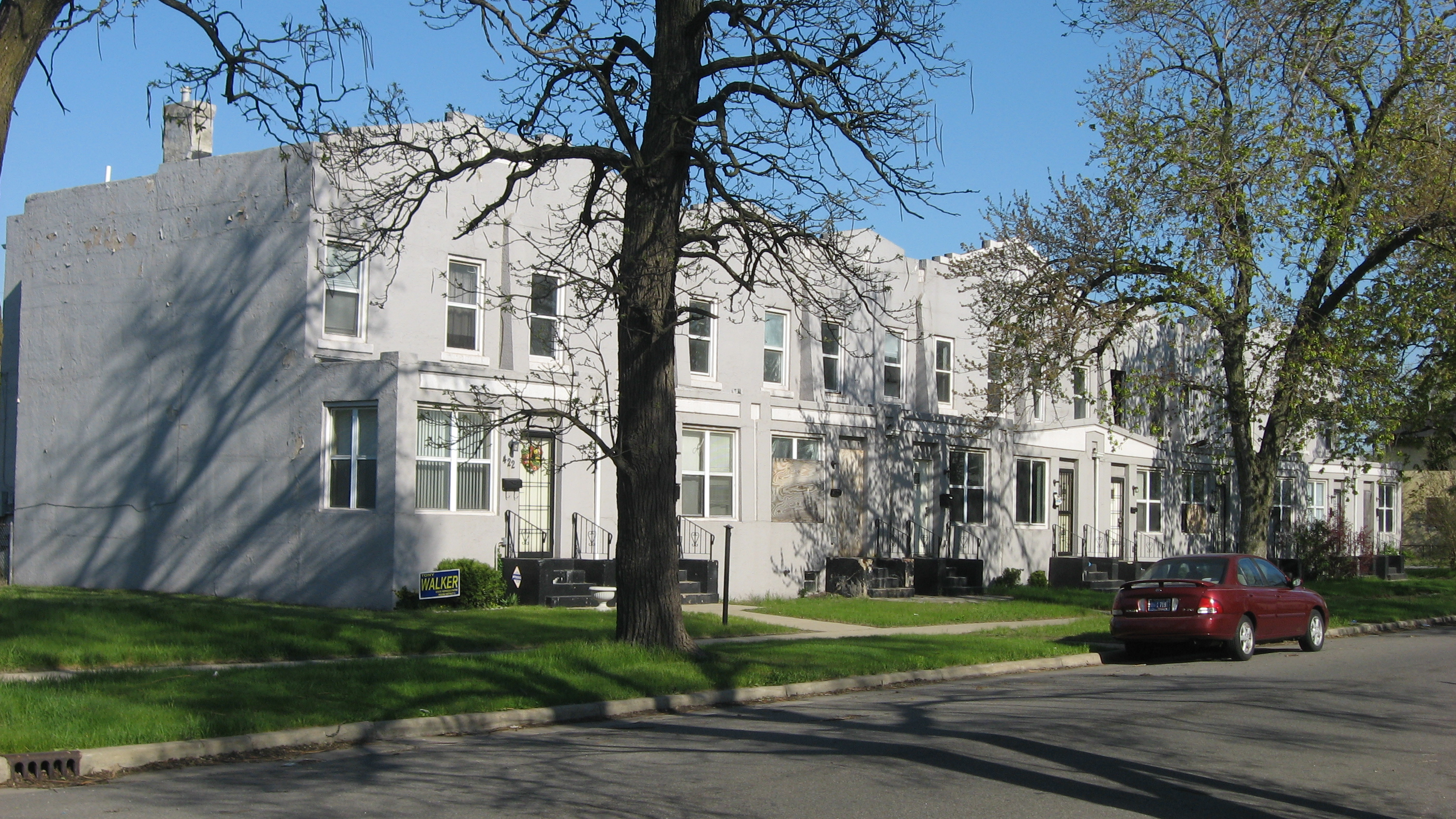 Looking northward along the houses on the western side of the 400 block of Polk Street in Gary, Indiana, United States. The houses pictured are part of the Polk Street Terraces Historic District, a historic district that is listed on the National Register of Historic Places.